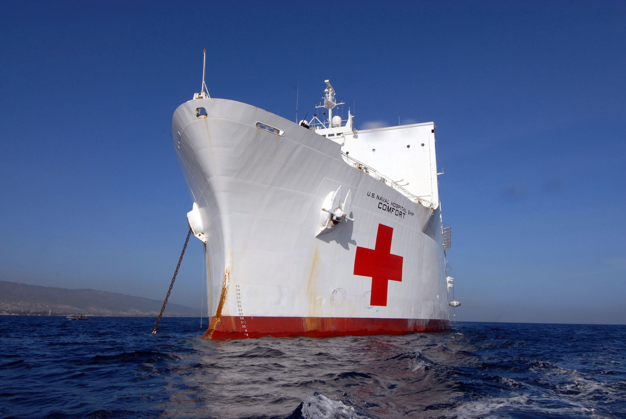 PORT-AU-PRINCE, Haiti (Sept. 2, 2007) - Military Sealift Command hospital ship USNS Comfort (T-AH 20) is anchored off the coast of Haiti. Comfort is on a four-month humanitarian deployment to Latin America and the Caribbean providing medical treatment to patients in a dozen countries. U.S. Navy photo by Mass Communication Specialist 2nd Class Joshua Karsten (RELEASED)